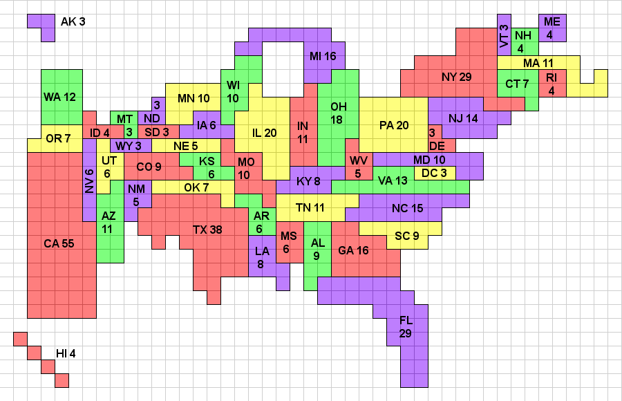 Gott and Colley's Electoral Cartogram showing the electoral votes apportioned to each state as a result of the 2010 Census. Note that the cartogram is topologically correct in that any state that borders another state in reality borders that state on the cartogram, and wherever multiple states meet at a point in reality, they also do so on the cartogram. The color map uses a 4-color system, which because of the topological correctness, could be applied to a standard geographic map as well. A previous version of this cartogram (reflecting the 2000 apportionment) was published in Mathematical and Computer Modeling. This image, and a monochrome version will be maintained at where one may also expect to find polling and election information in 2012.